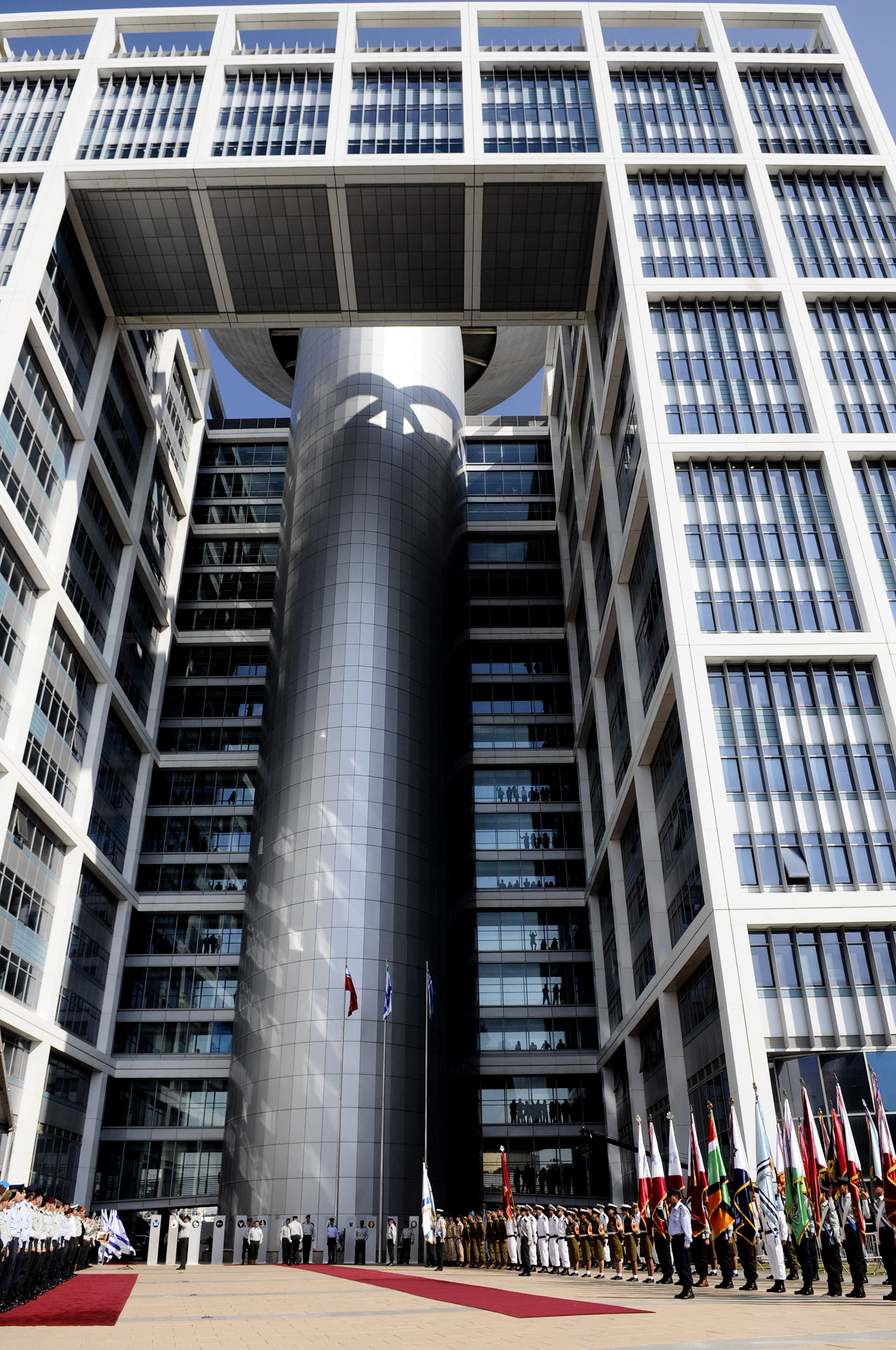 February 14, 2011. Lt. Gen. Gabi Ashkenazi receives an honor guard as his four year tenure of Chief of Staff and 40 years of service in the IDF comes to a close. The honor guard took place today at the IDF Kirya Compound Headquarters in Tel Aviv. Lt. Gen. Benny Gantz will succeed Lt. Gen. Gabi Ashkenazi as Chief of the General Staff.